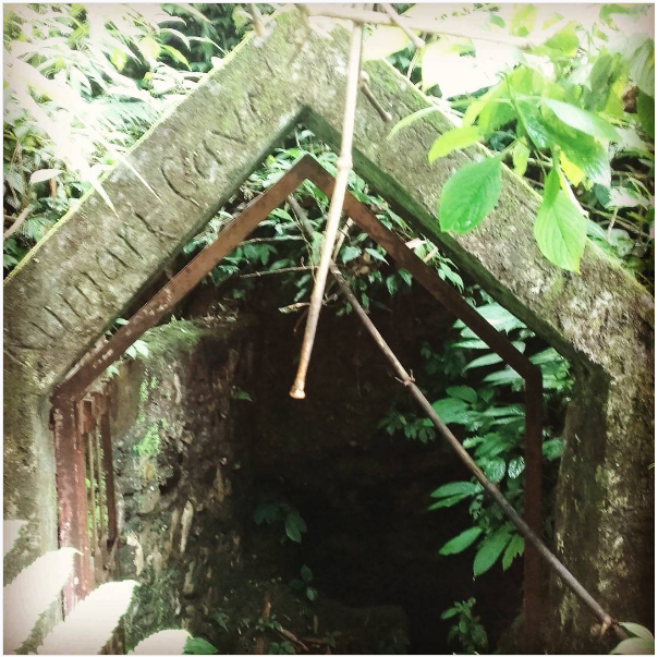 The Main Entrance to the Kumari Caves